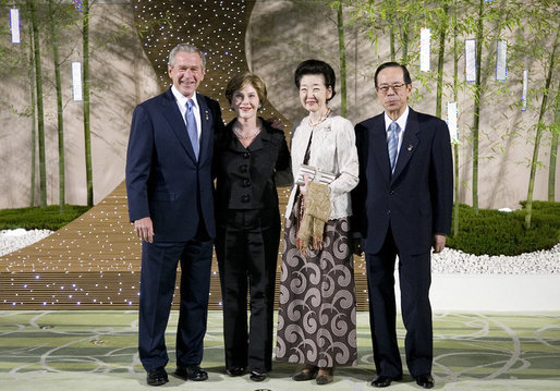 President George W. Bush and Mrs. Laura Bush stand with Prime Minister Yasuo Fukuda and Mrs. Kiyoko Fukuda at the Windsor Hotel Toya Resort and Spa in Tōyako Town, Abuta District, Hokkaidō on July 7, 2008.